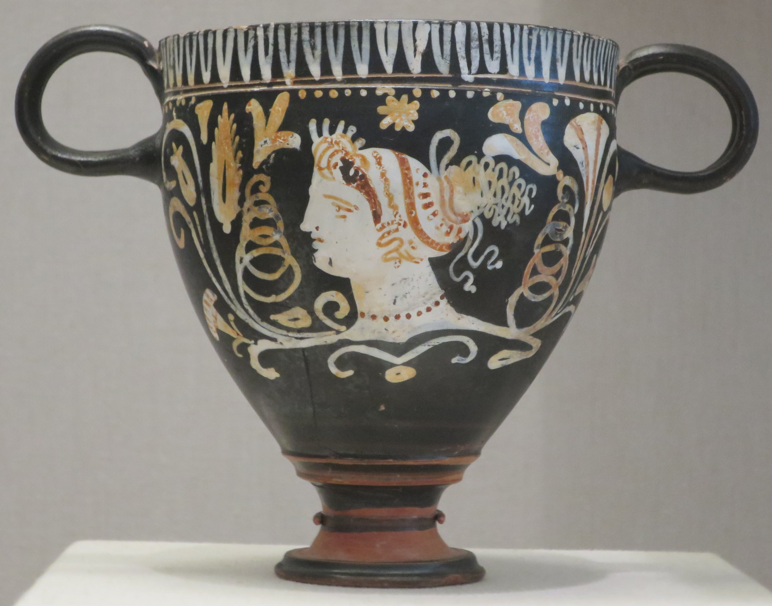 Skyphos, southern Italy, Apulia, c. 330-320 BCE, terracotta, Gnathia ware, California Palace of the Legion of Honor